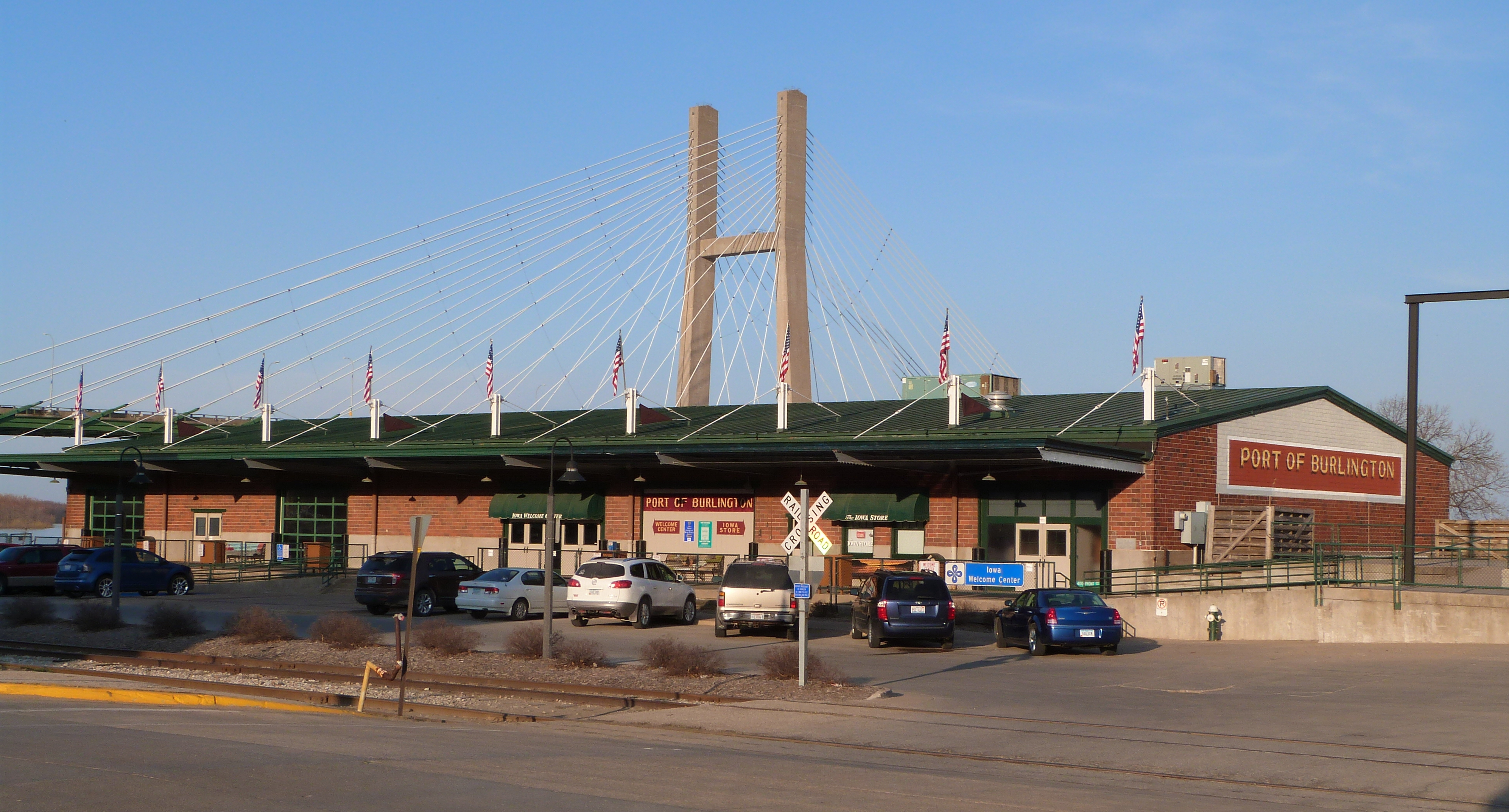 The Port of Burlington building in Burlington, Iowa, United States, is a landmark on Burlington's Mississippi River waterfront. As of the photo date, the building is in use as an Iowa Welcome Center.